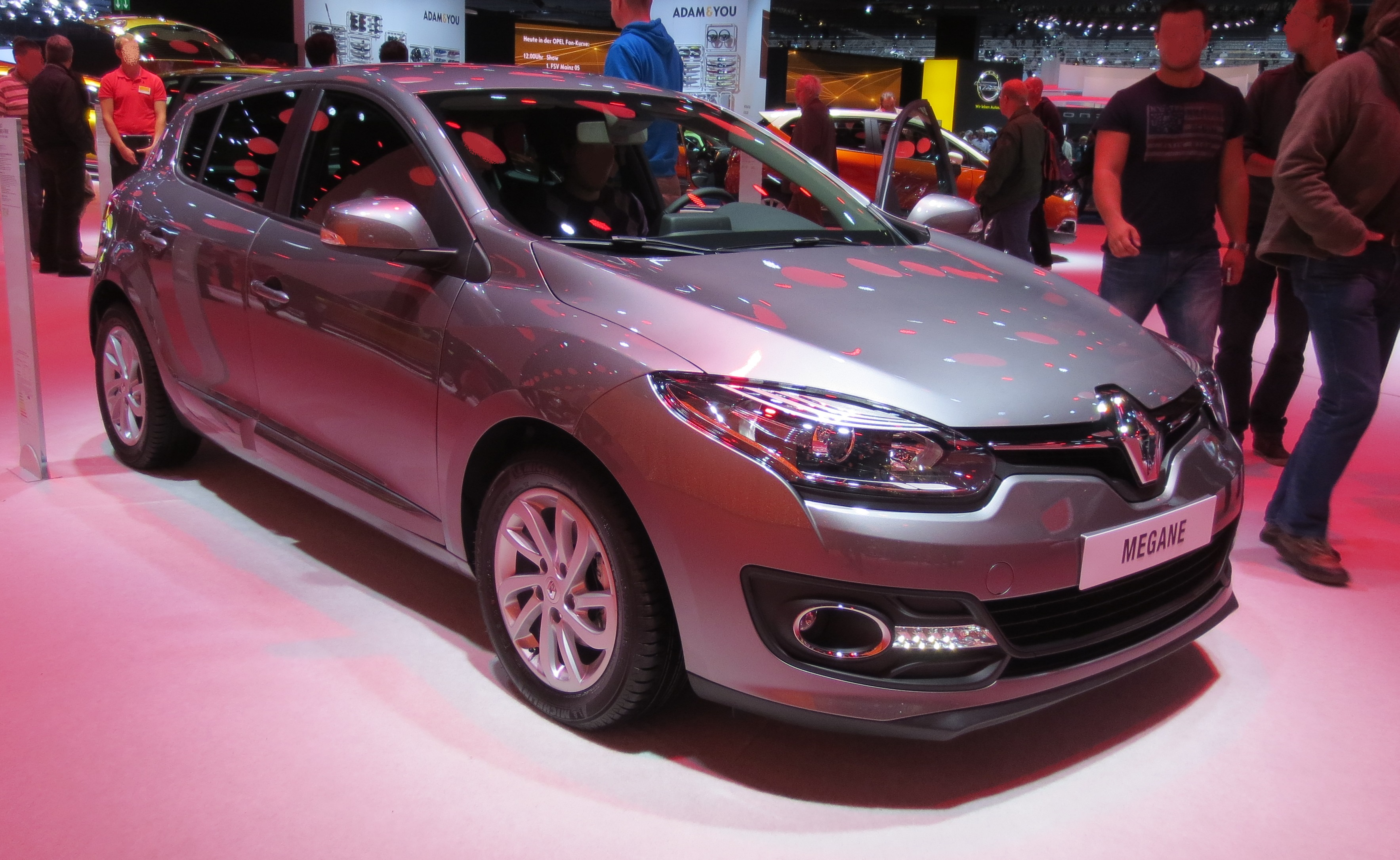 Subject: Renault Mégane III 5p Phase 3 Author: Luc106 Date:September 17th, 2013 Event: IAA 2013 Place/Country: Frankfurtermesse, Frankfurt am Main (Deutschland) I release all rights in the public domain.